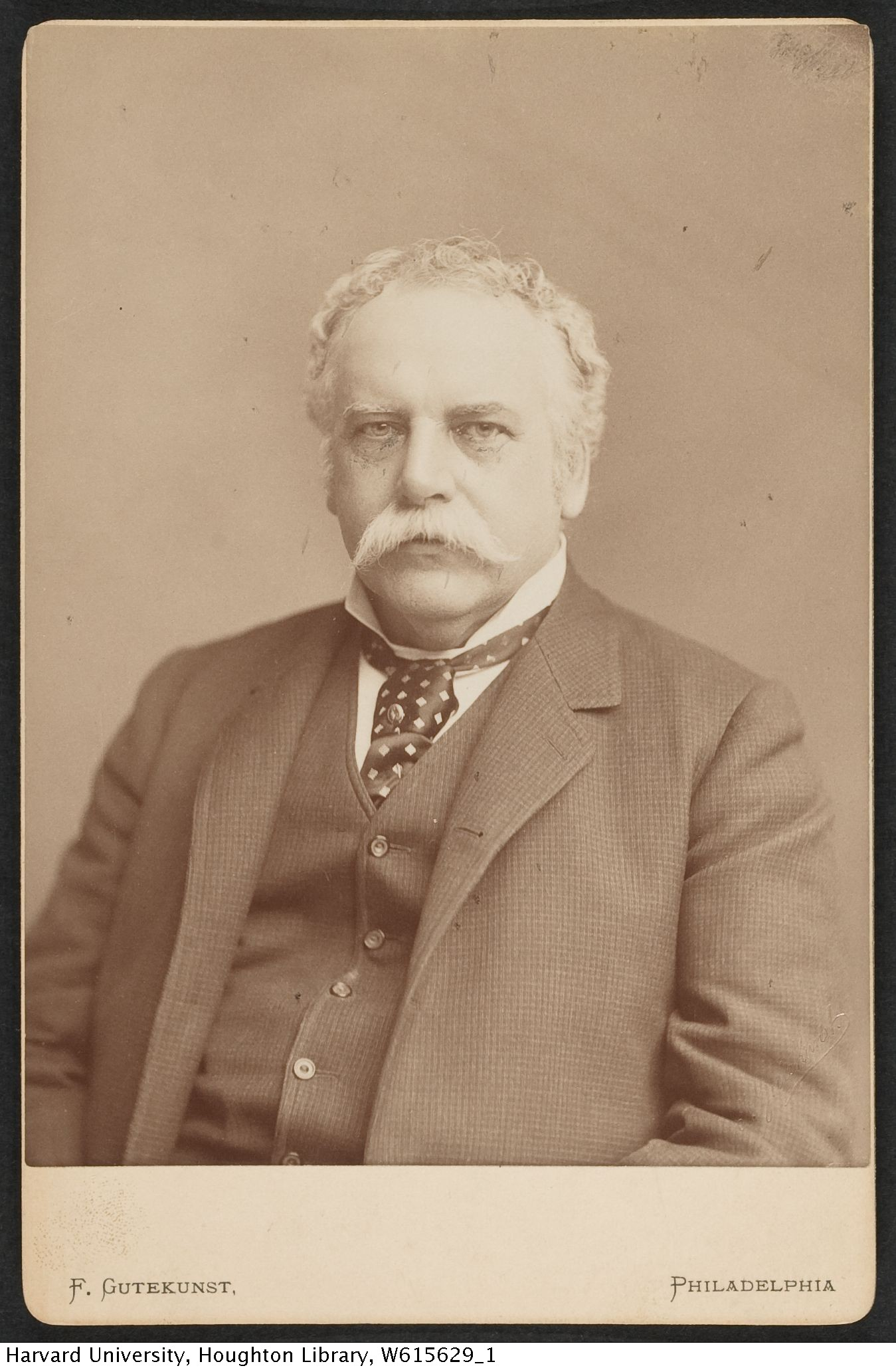 Cabinet card image of American poet, playwright, and diplomat George H. Boker (1823-1890). TCS 1.2727, Harvard Theatre Collection, Harvard University